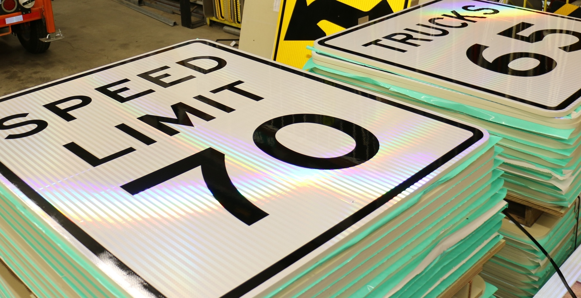 A stack of new speed limit signs is ready to be put in place as Oregon changes the speed limit in certain areas in central and eastern Oregon effective March 1. See our website for